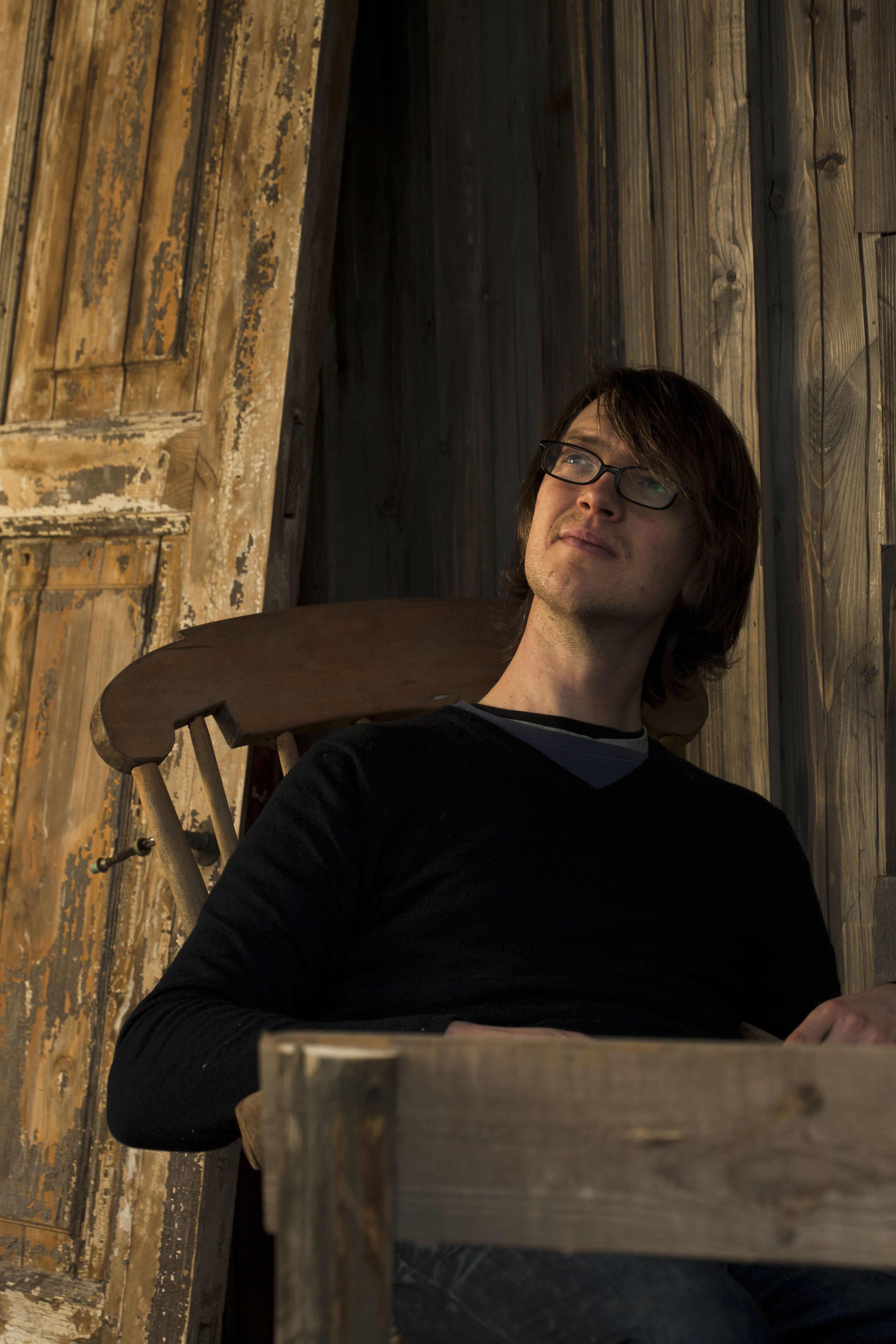 Artist_David_Blandy_in_kiasmaPHOTO Finnish National Gallery /Pirje Mykkänen